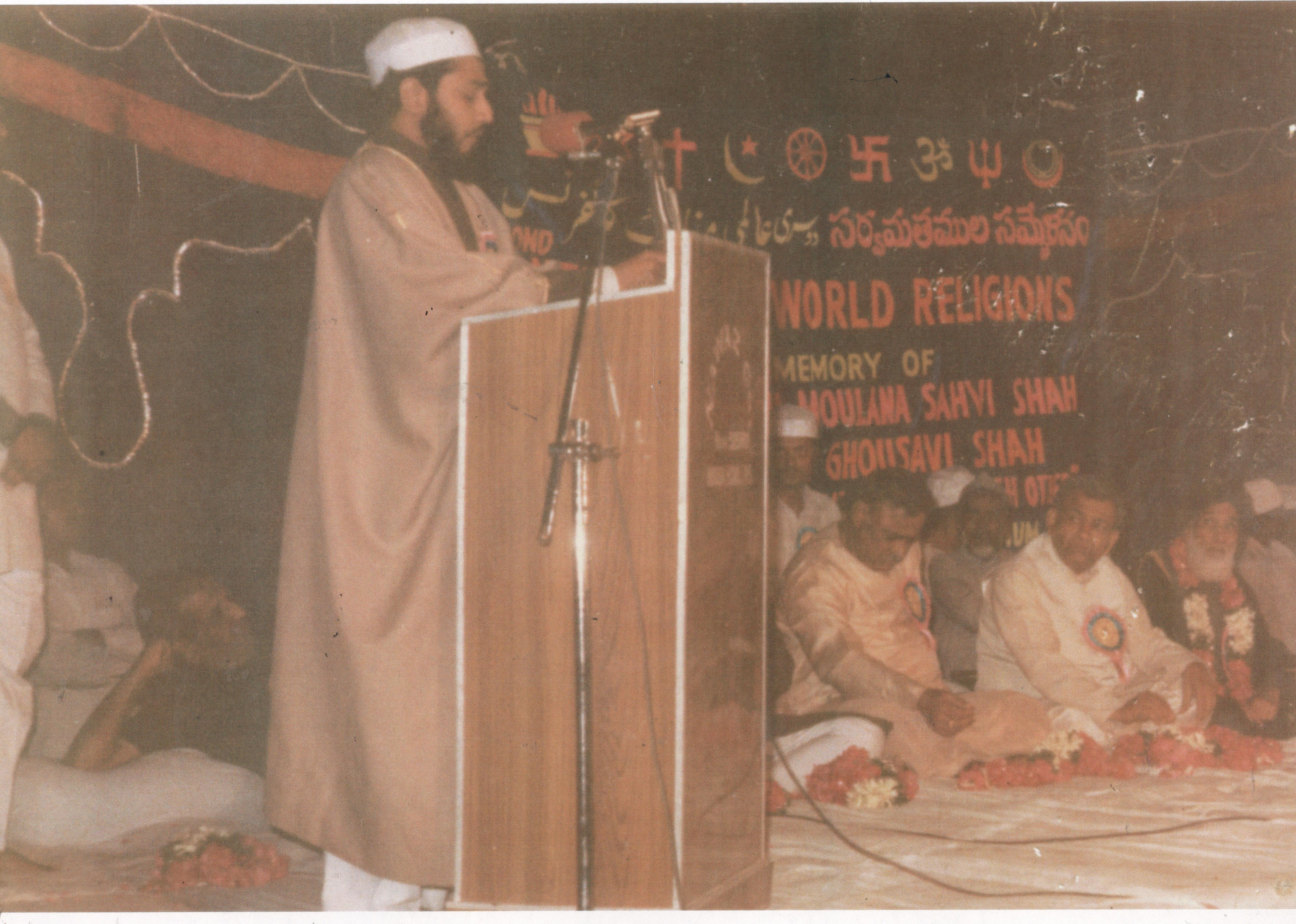 Second Conference of World Religions organized by Moulana Ghousavi Shah(Secretary General: The Conference of World Religions)